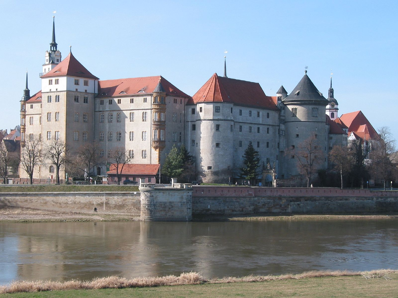 Castle Hartenfels in Torgau, Germany.